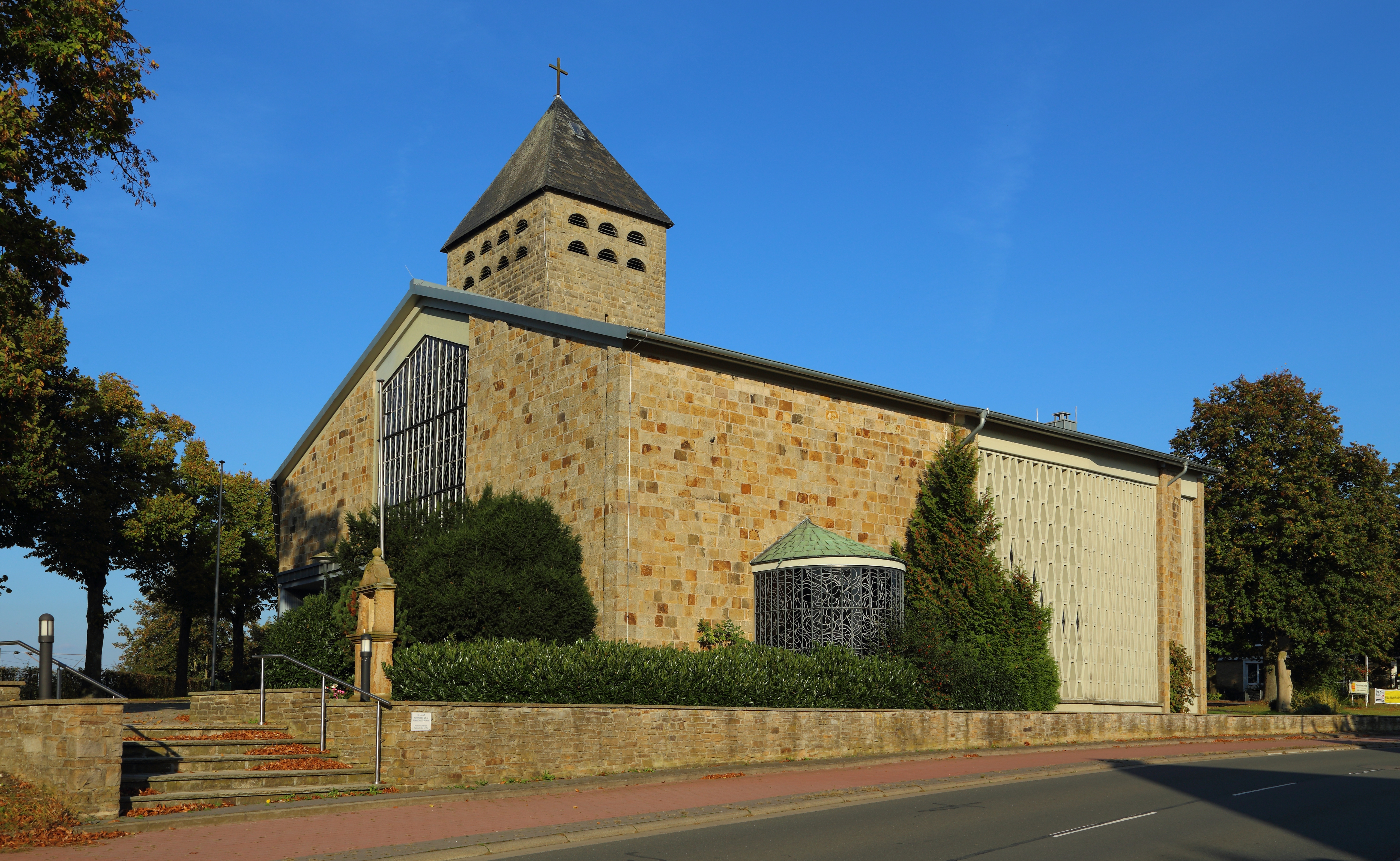 Roman Catholic St Josef Church in Rheine-Rodde, Kreis Steinfurt, North Rhine-Westphalia, Germany.